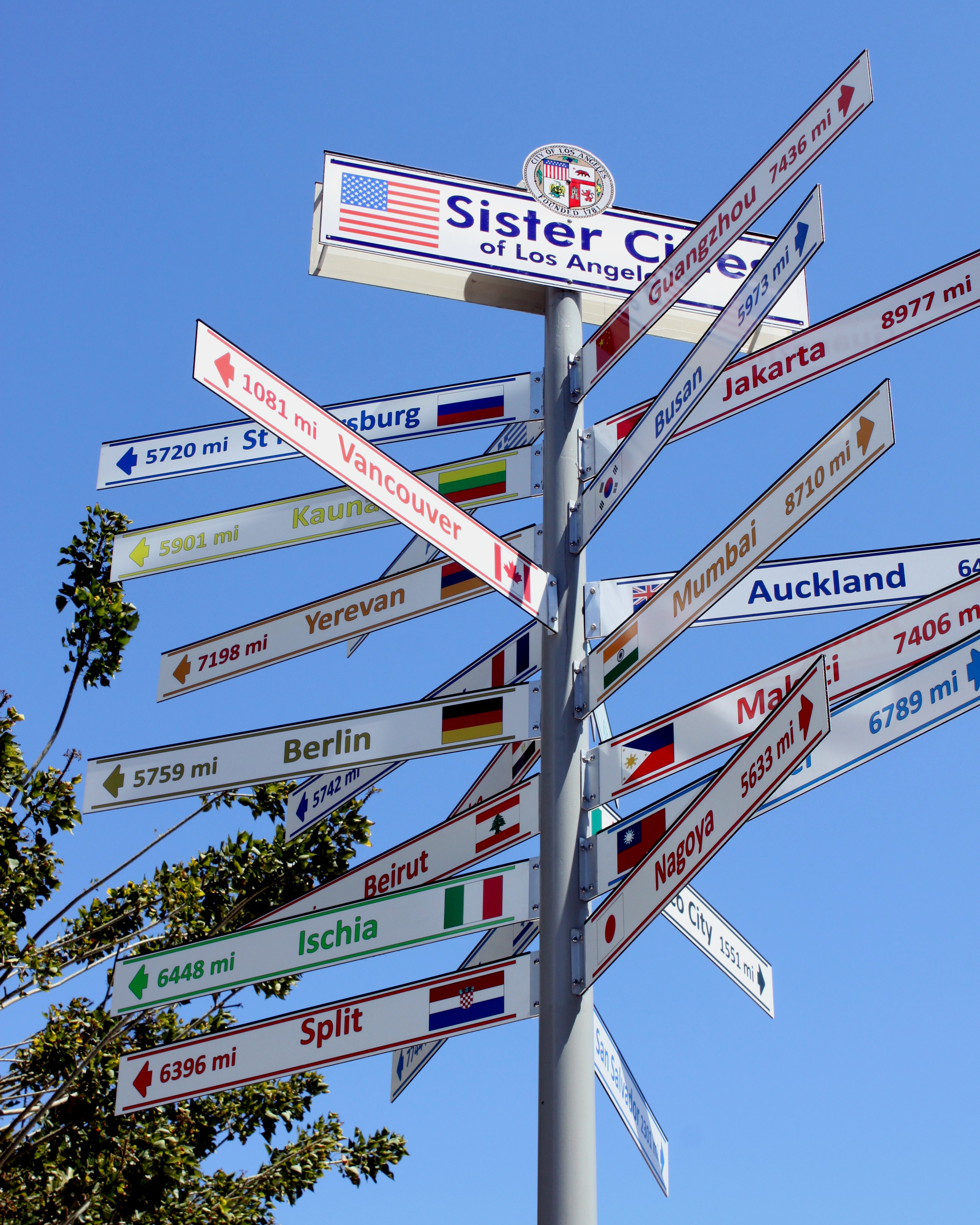 St. Petersburg, Kaunas, Yerevan, Vancouver, Berlin, Beirut, Ischia, Split, Guangzhou, Busan, Lusaka, Mumbai, Nagoya, Auckland, Jakarta, Taipei, Makati, San Salvador, Bordeaux, Mexico City Metro Blue Line / Expo line = Pico / Convention Center Station =